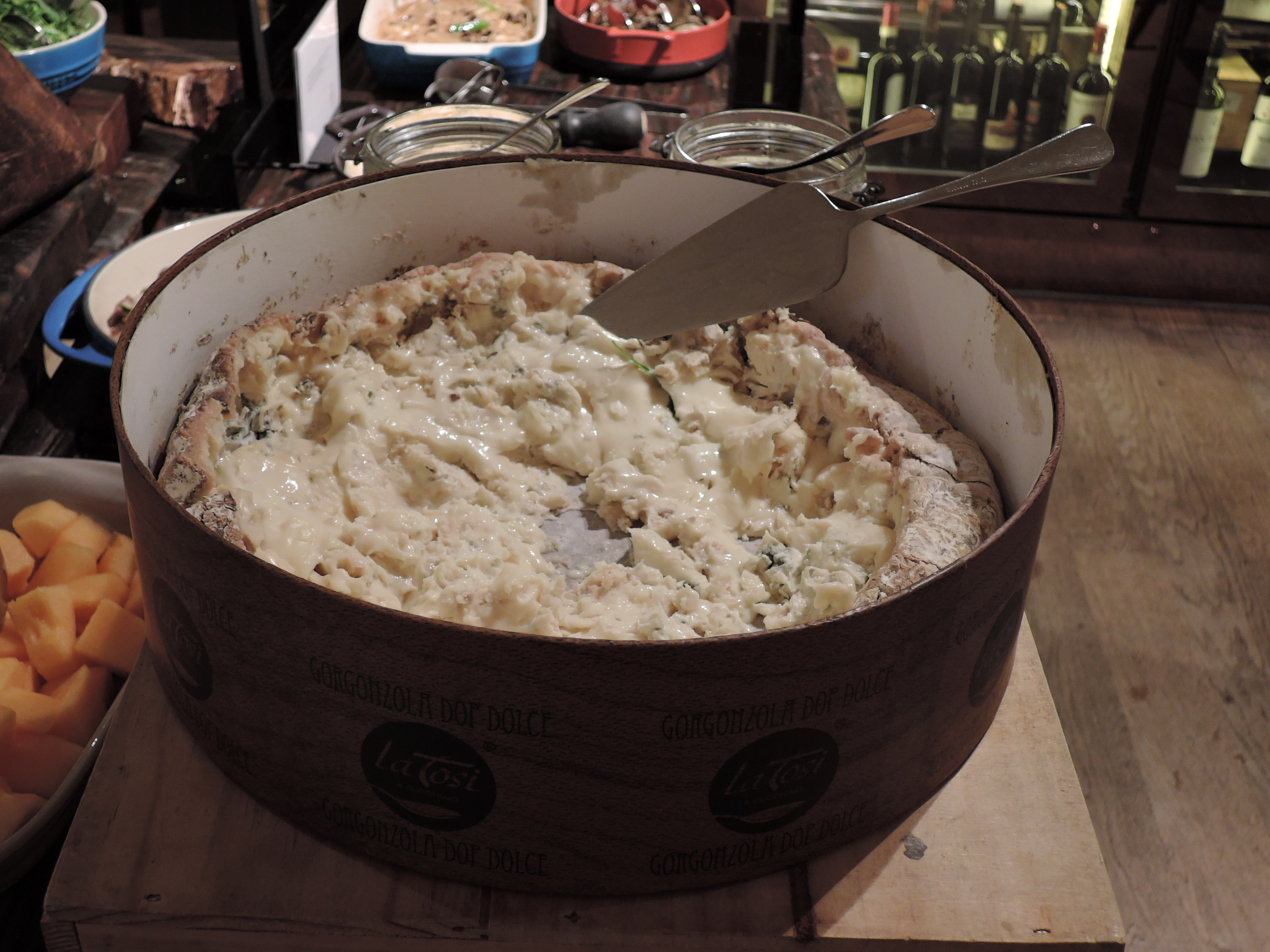 A grant of Gorgonzola blue cheese in western restaurant at Holiday Inn Hotel in Tsim Sha Tsui